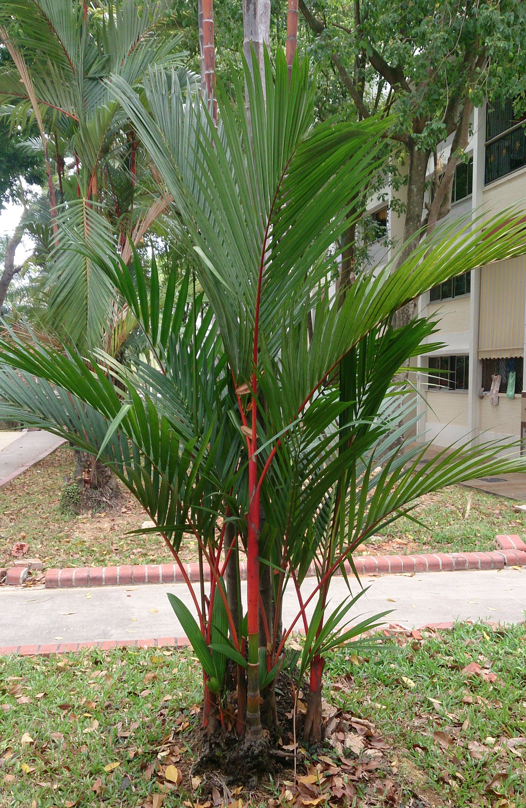 Cyrtostachys renda. Common names: Lipstick Palm. Sealing Wax Palm. Maharajah Palm. Pinang Rajah (Malaysia). 口红棕 (Chinese).